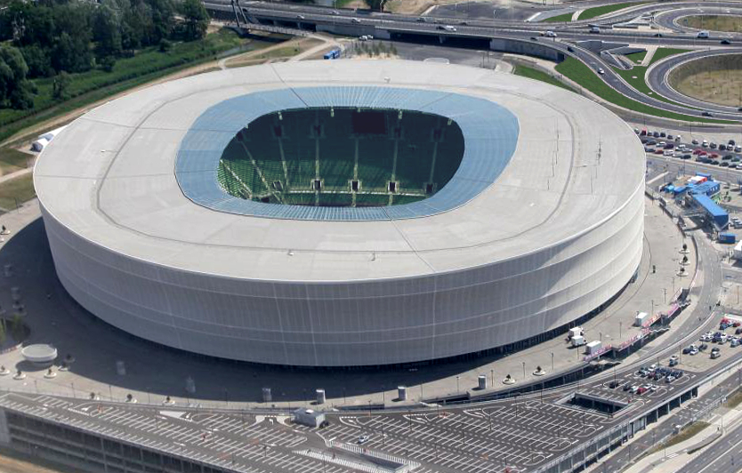 Wroclaw Munincipal Stadium